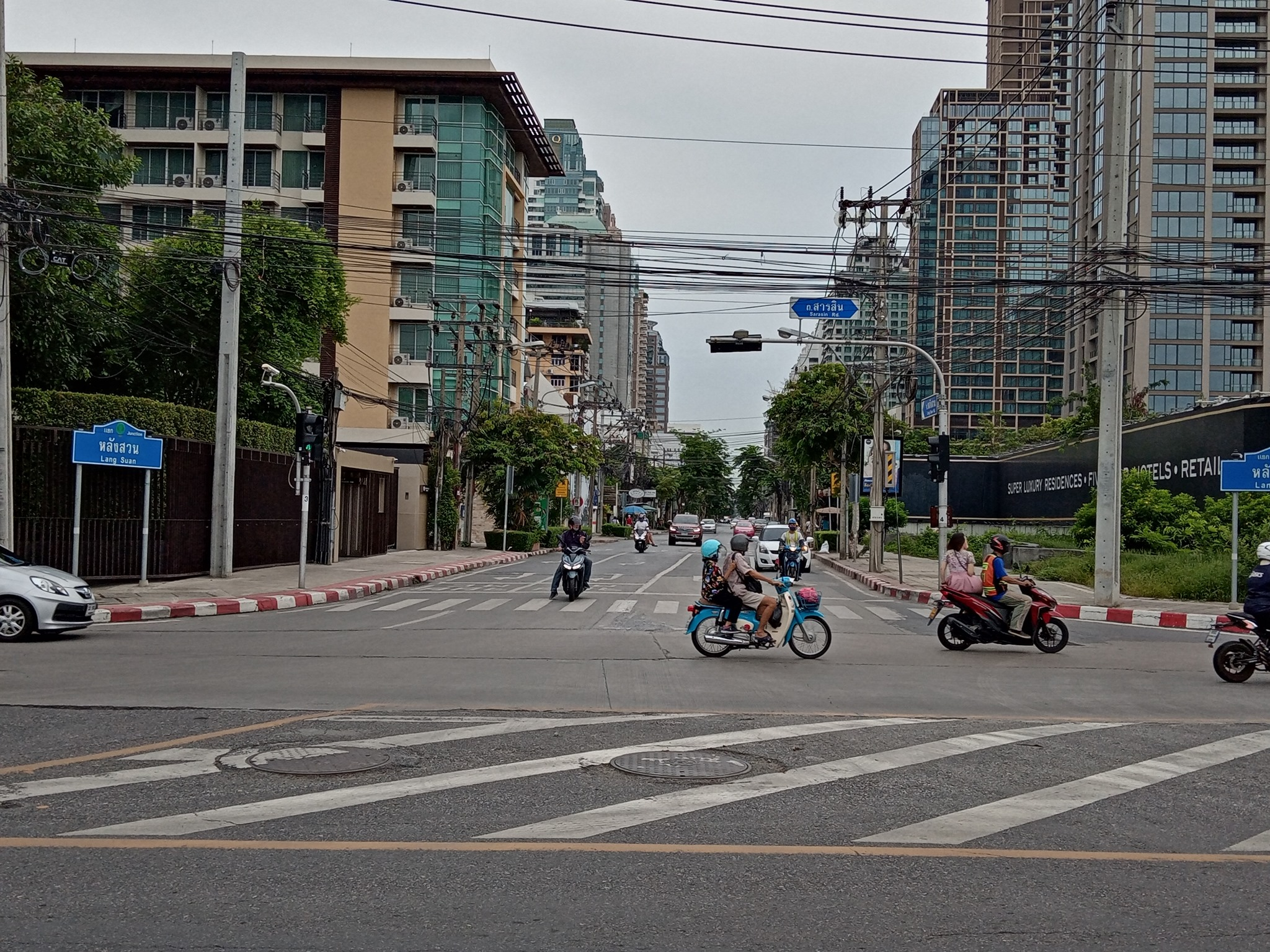 Lang Suan Junction, Lumphini, Pathum Wan, BKK